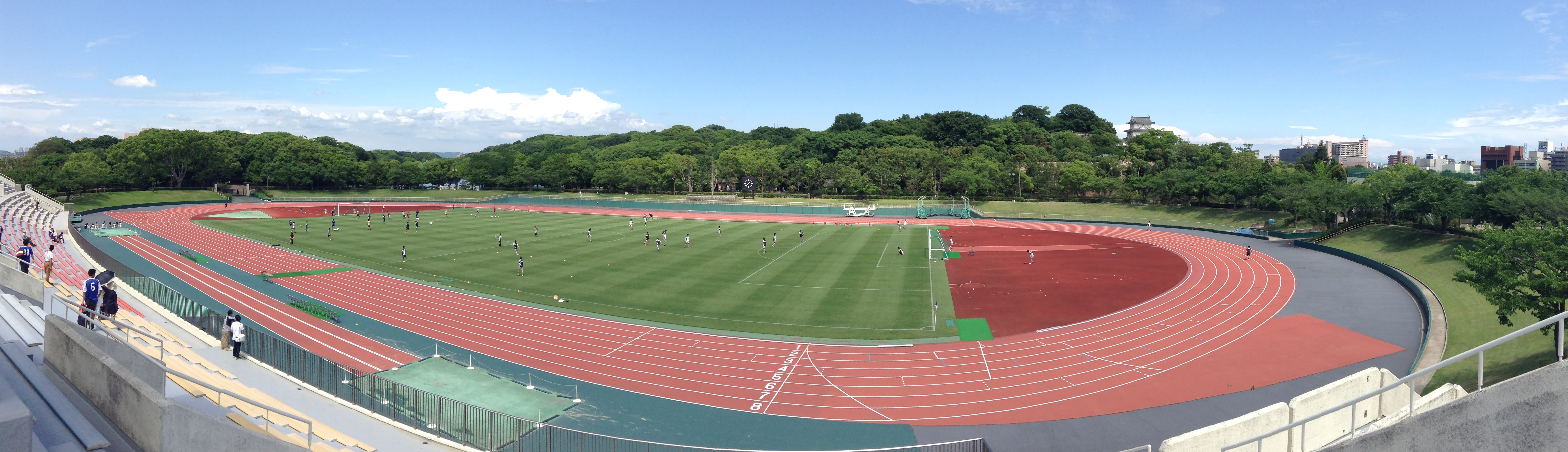 The panoramic photograph of Akashi Park stadium